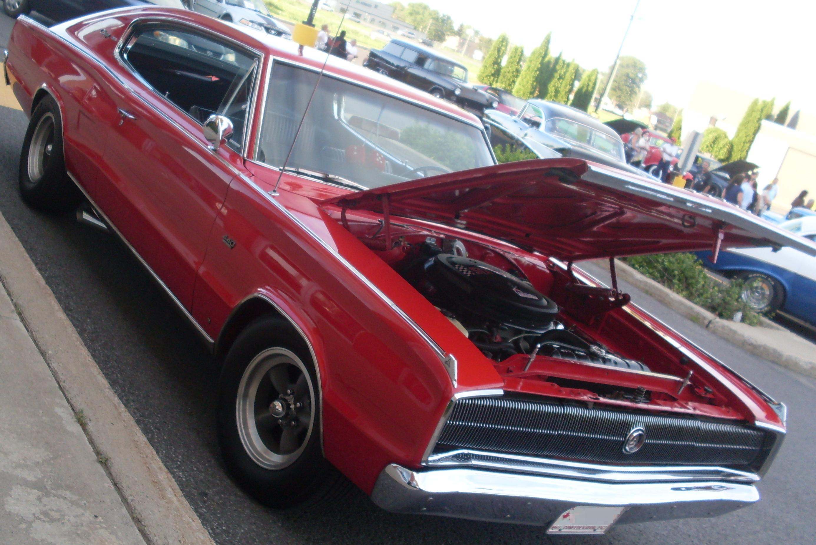 1967 Dodge Charger photographed in St. Constant, Quebec, Canada at Auto classique St-Constant 2013.